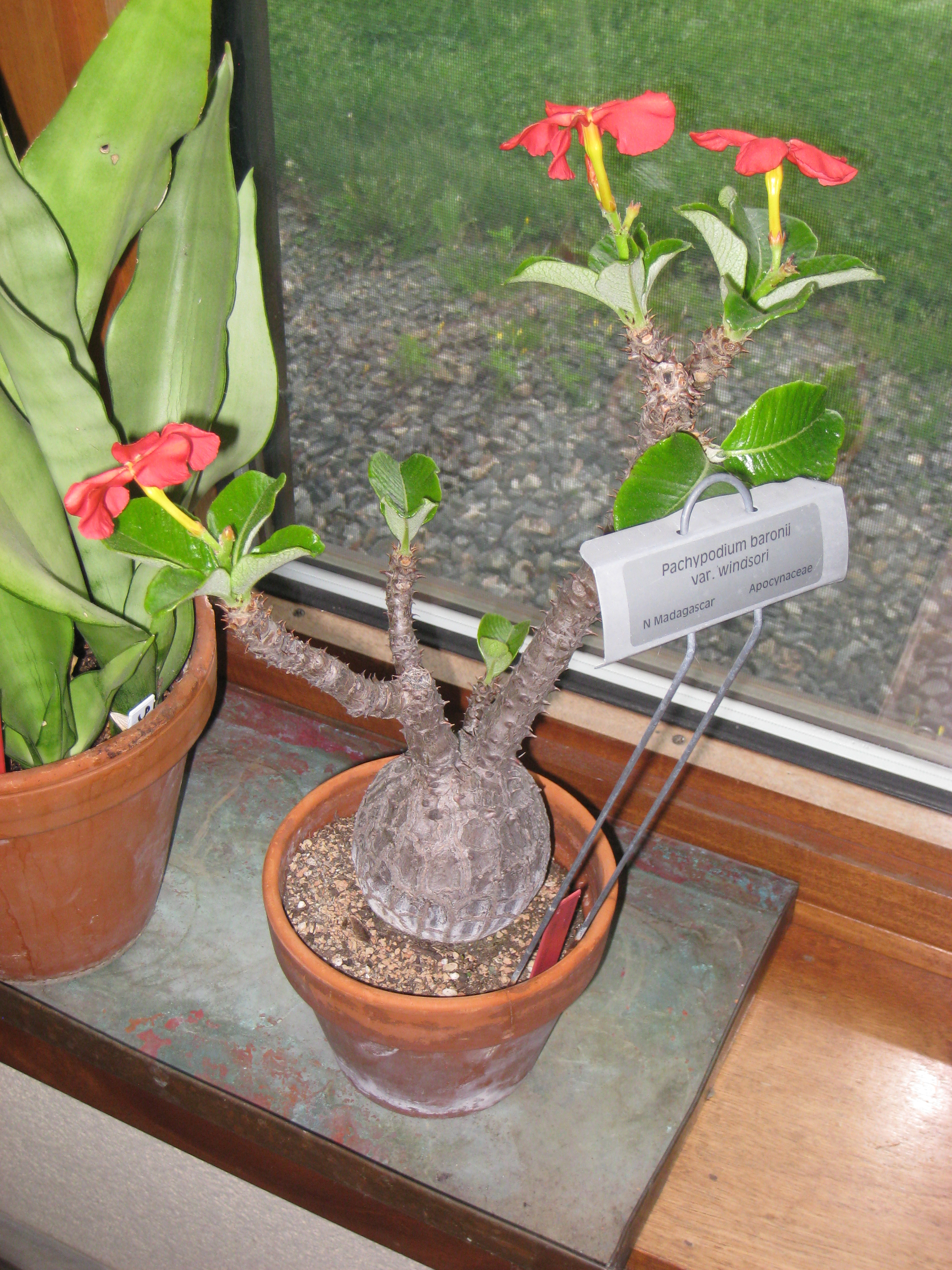 Pachypodium baronii, in the Tower Hill Botanic Garden, Boylston, Massachusetts, USA.